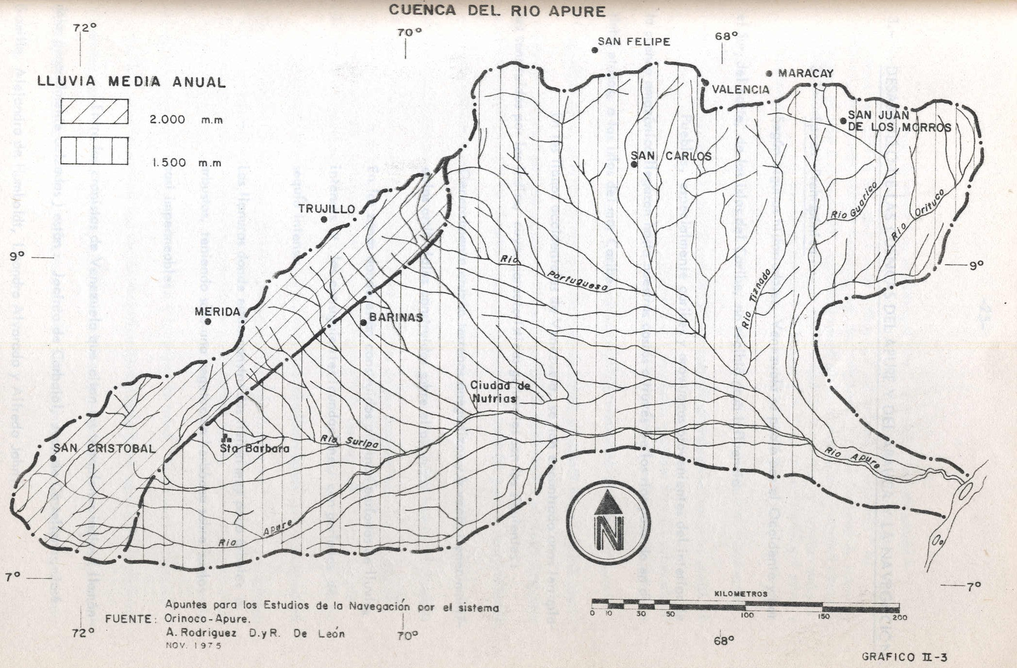 Apure River Basin